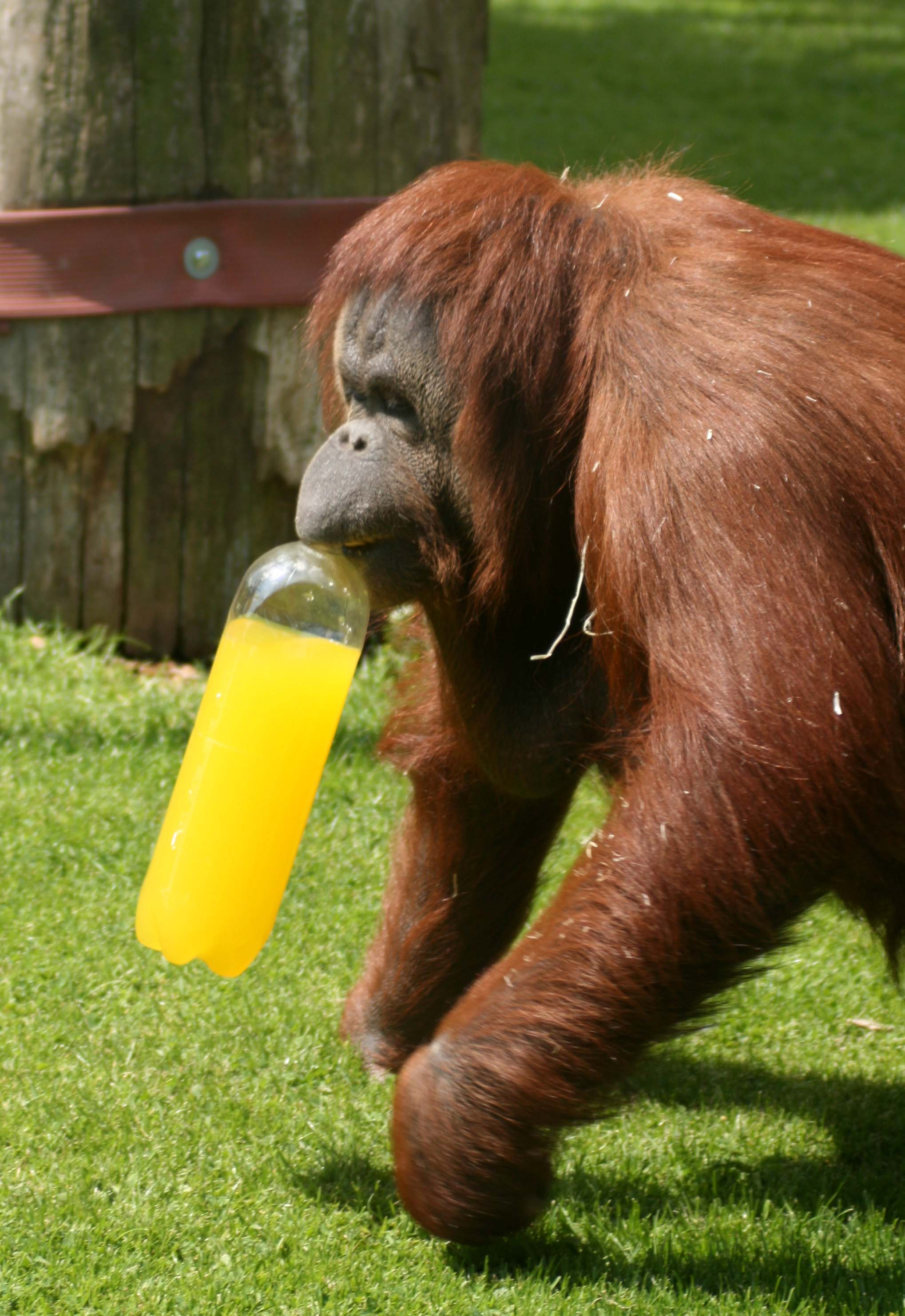 Bornean Orang-Utan (Pongo pygmaeus pygmaeus) at Twycross Zoo, England.